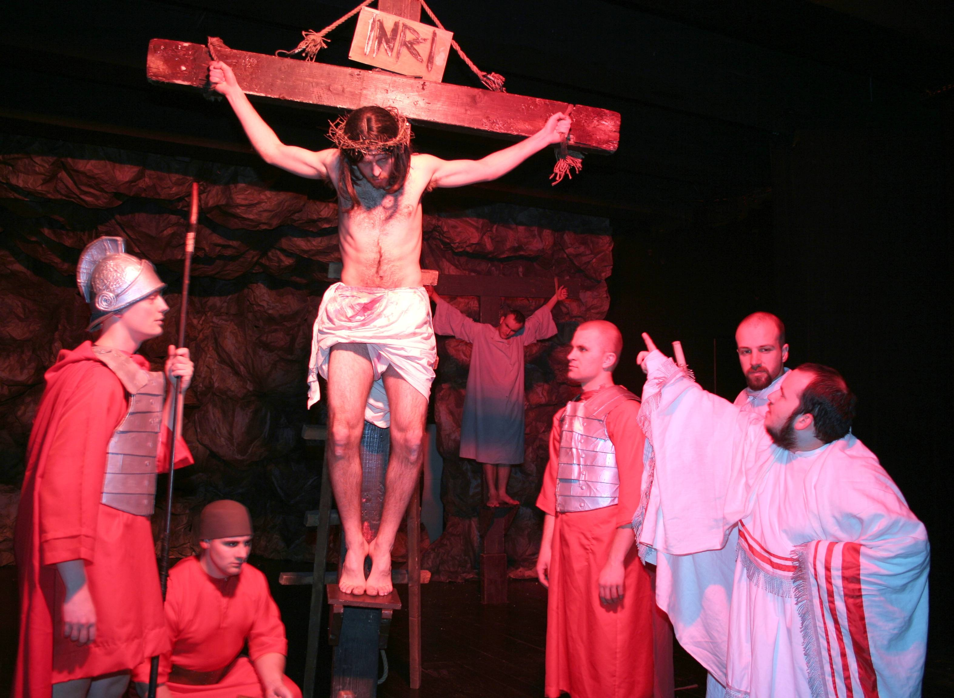 A Passion Play in the Seminary in Ołtarzew, Poland